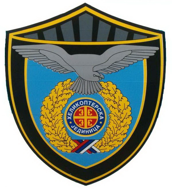 Emblem: Helicopter unit of Serbian Police